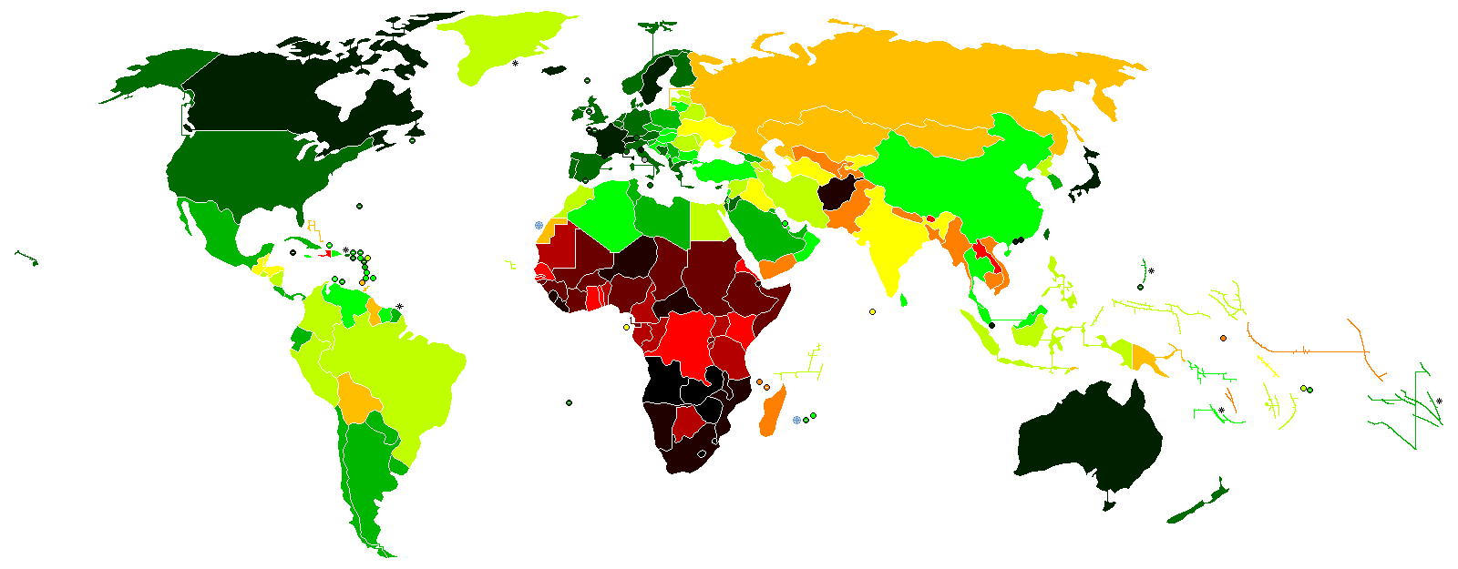 Life Expectancy at birth (years) over 80 77.5-80 75-77.5 72.5-75 70-72.5 67.5-70 65-67.5 60-65 55-60 50-55 45-50 40-45 under 40 not available Life expectancy at birth (years) world map including: 1) All 192 United Nations member states. 2) 26 dependent territories - marked with an asterisk (*) or a white minus sign (-). 3) Republic of China - Taiwan. 4) Hong-Kong and Macau - Special Administrative Regions of the People's Republic of China. 5) Occupied Palestinian Territories: West Bank and Gaza Strip. 6) Western Sahara territory.